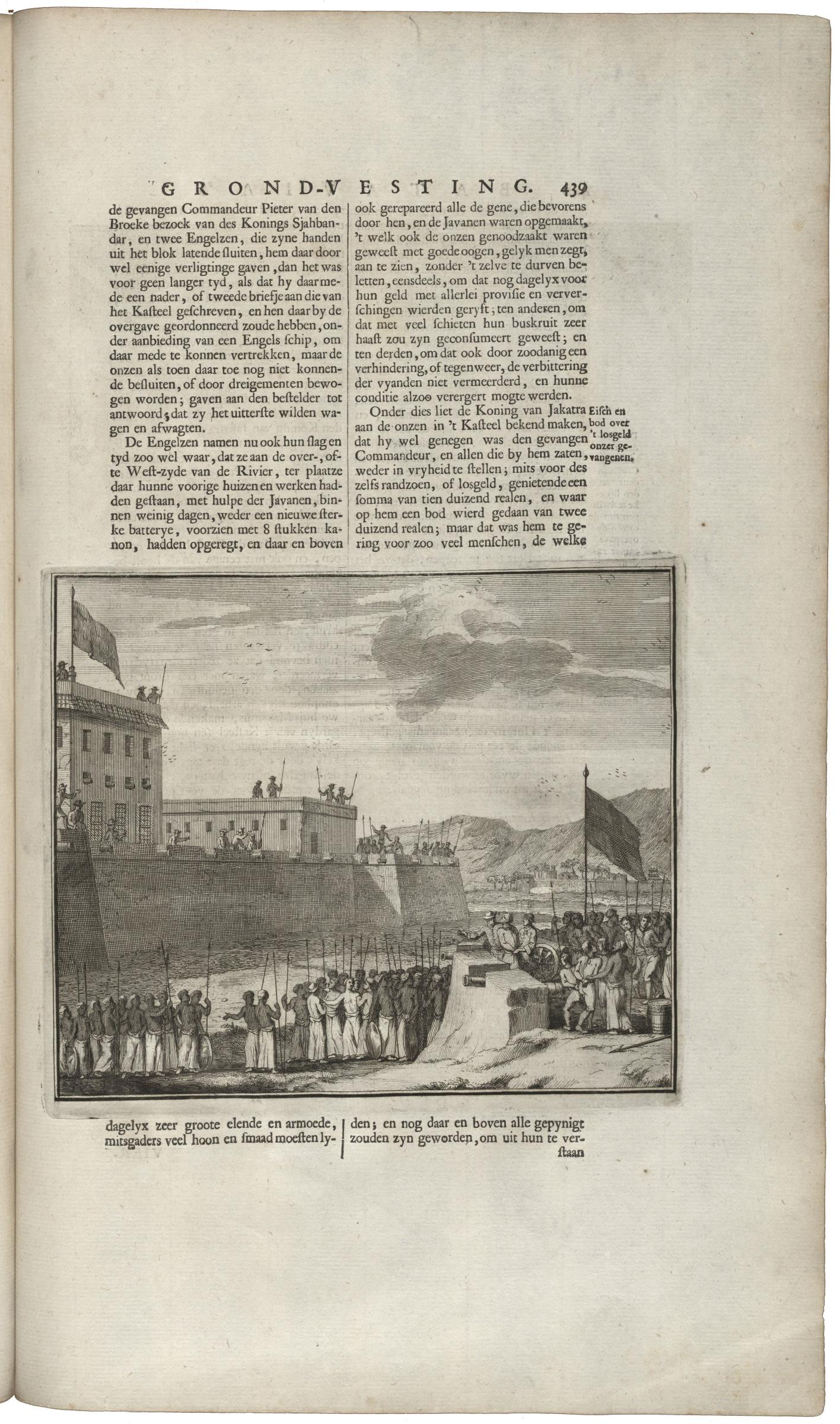 Siege of Batavia castle in 1619. J.P. Coen decided in 1619 that Jakatra (later Batavia) would be a more suitable base for the VOC on Java than Bantam and set out to capture the city. The sultan of Mataram, under whose influence Jakatra fell, was self-evidently opposed to this and resisted strongly. In the foreground left is the Dutch commander Pieter van den Broecke, who was taken prisoner by the sultan. The illustration is taken from the work 'Oud en Nieuw Oost-Indien' by Francois Valentyn.